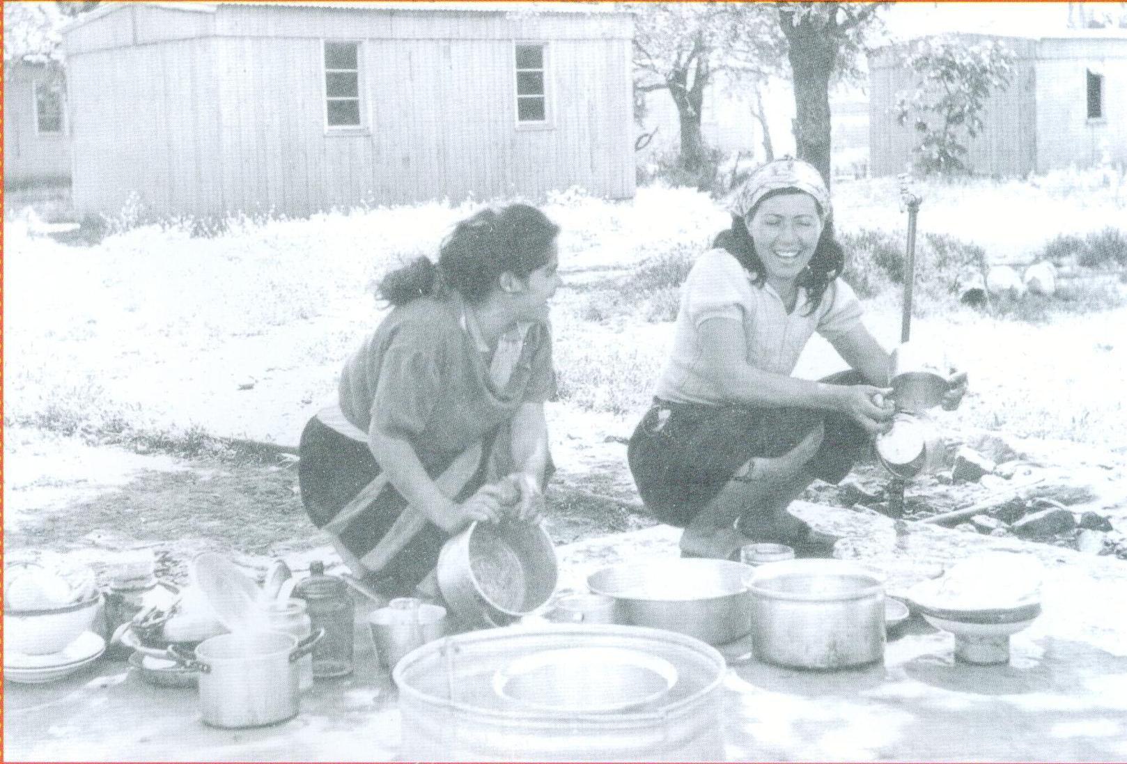 Cities in Israel